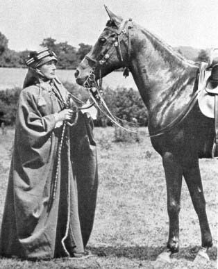 Lady Anne Blunt, in Bedouin dress, and her favorite riding mare, Kasida Date and photographer unknown Photo c. 1900